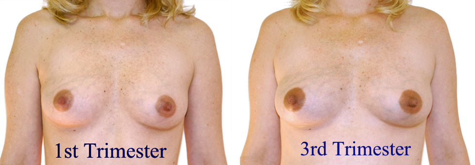 Breast changes during pregnancy